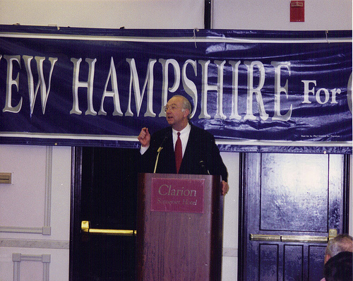 Phil Gramm while at a campaign stop for President in Nashua, New Hampshire